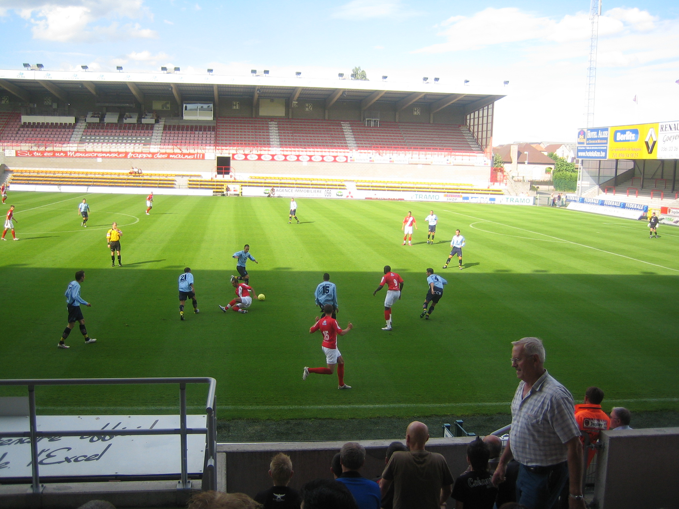 Match Amical Royal Excelsior Mouscron - RFC Tournai